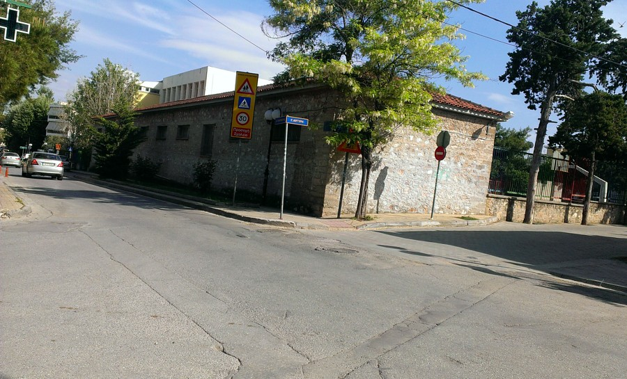 lykovrysi